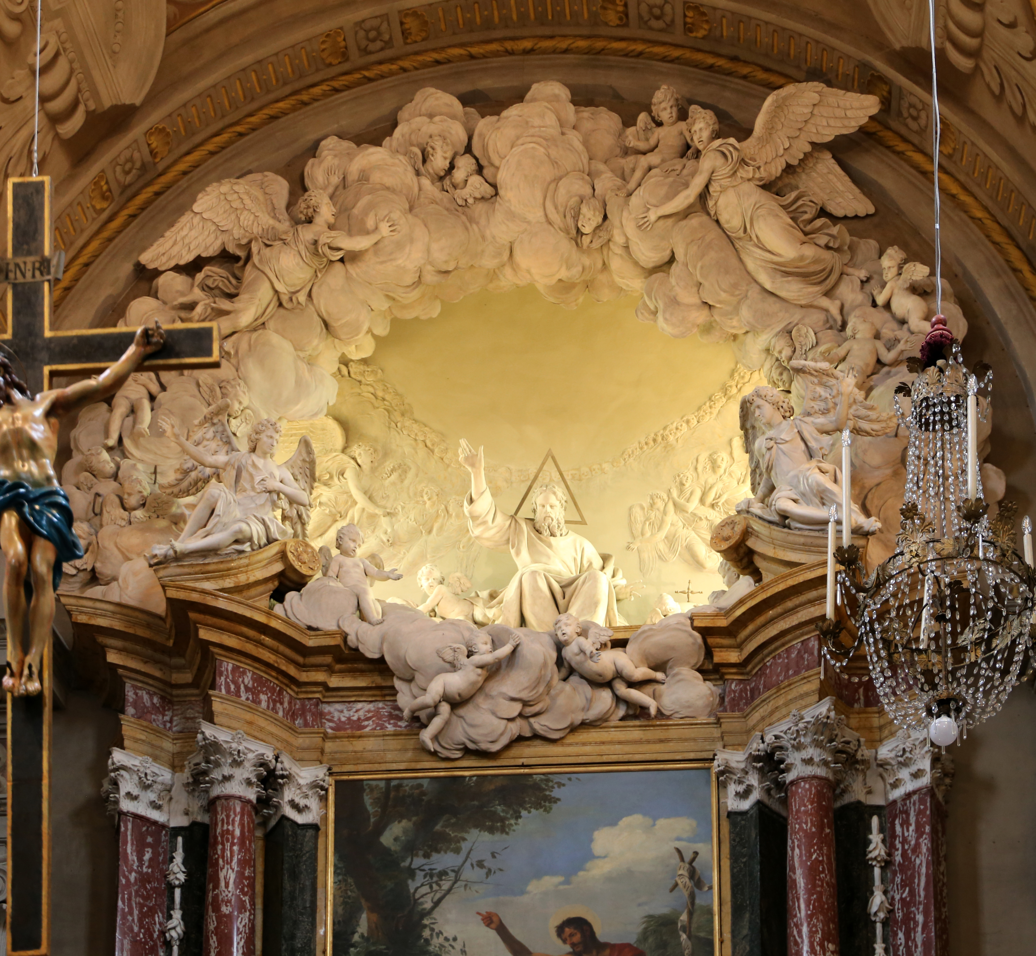 San Giovanni Battista (Minerbio)